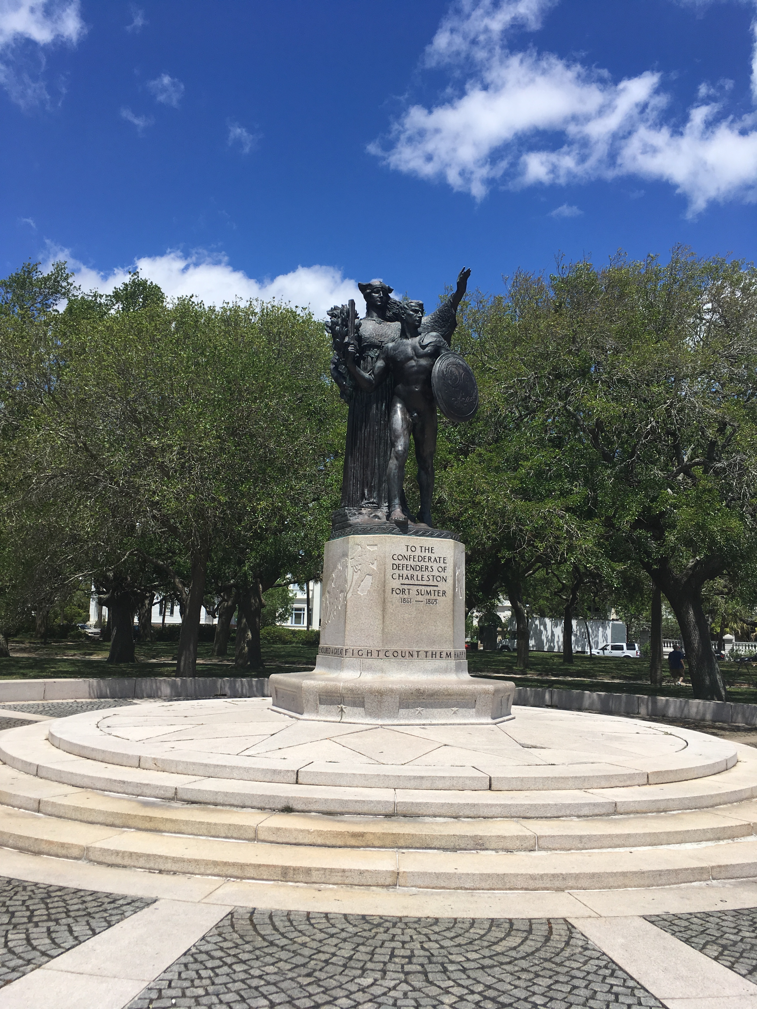 The Daughters of the Confederacy monument in Charleston, SC, located in the Battery park.